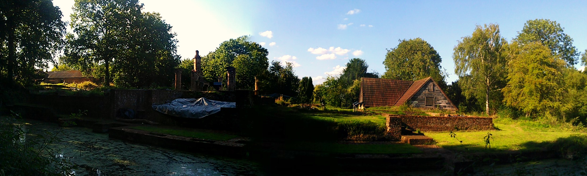 Panorama of Scadbury Manor in Scadbury Park, London Borough of Bromley.